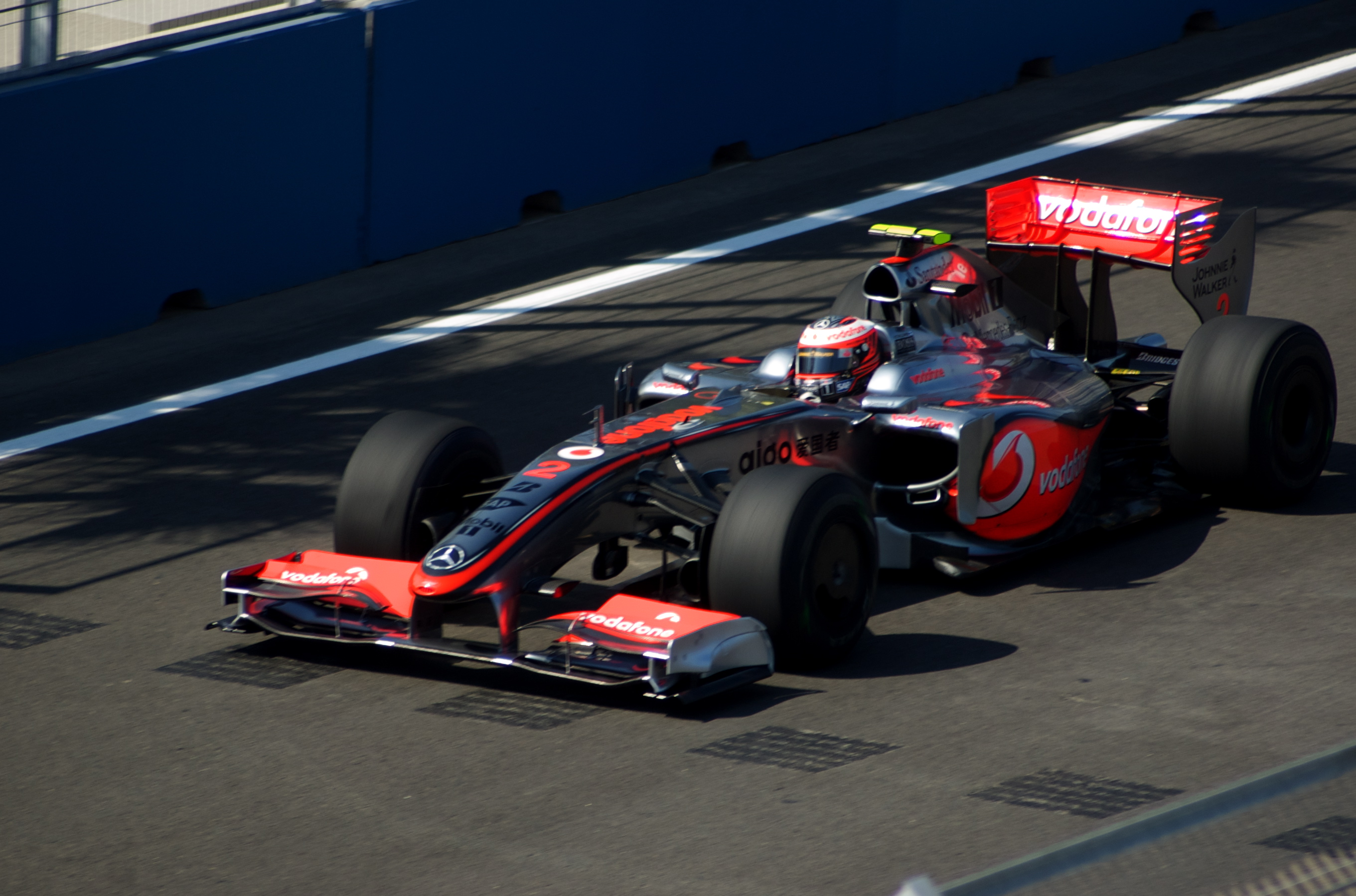 Heikki Kovalainen driving for McLaren at the 2009 European Grand Prix.